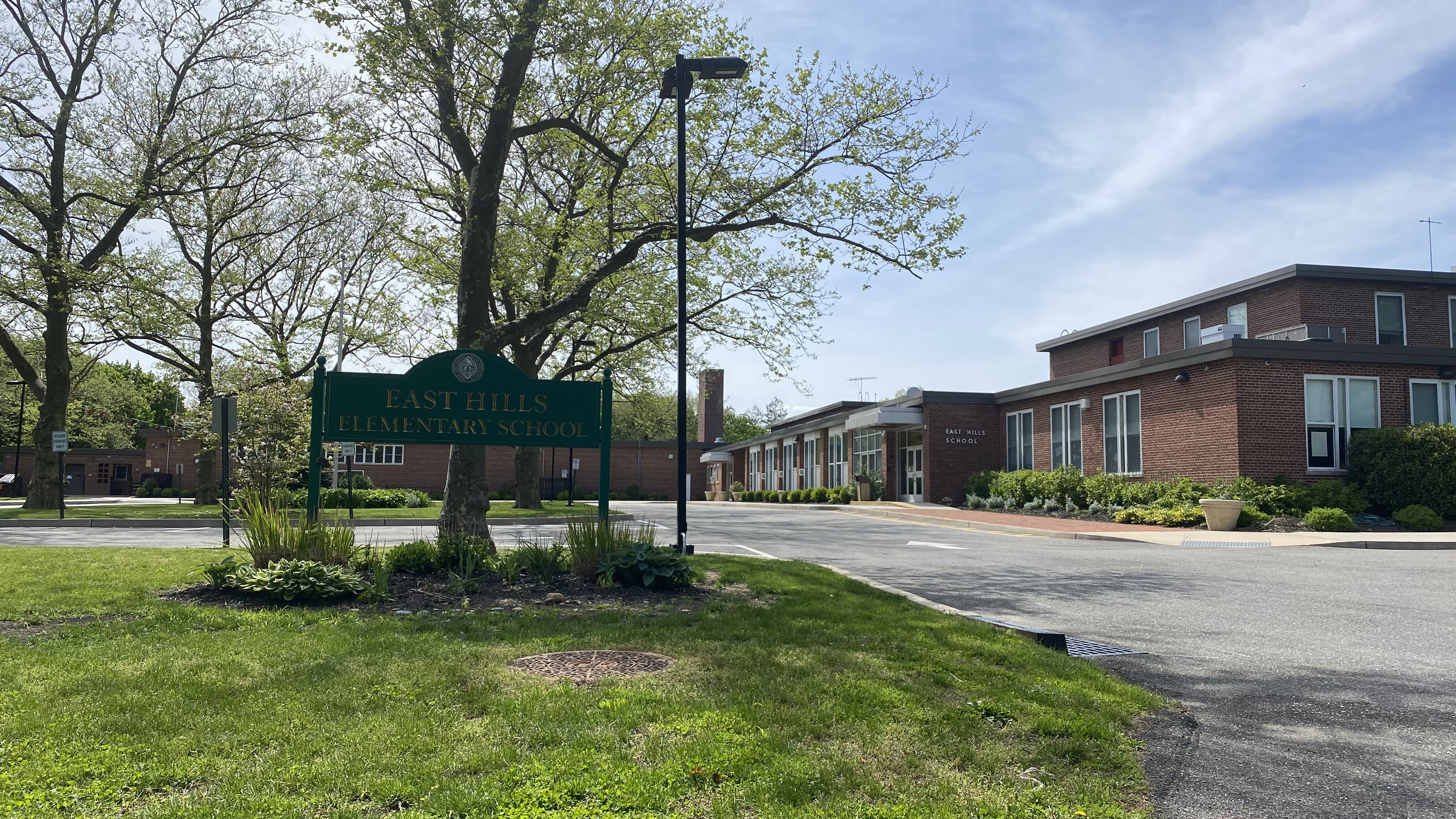 East Hills Elementary School, looking towards the front circle and main entrance.